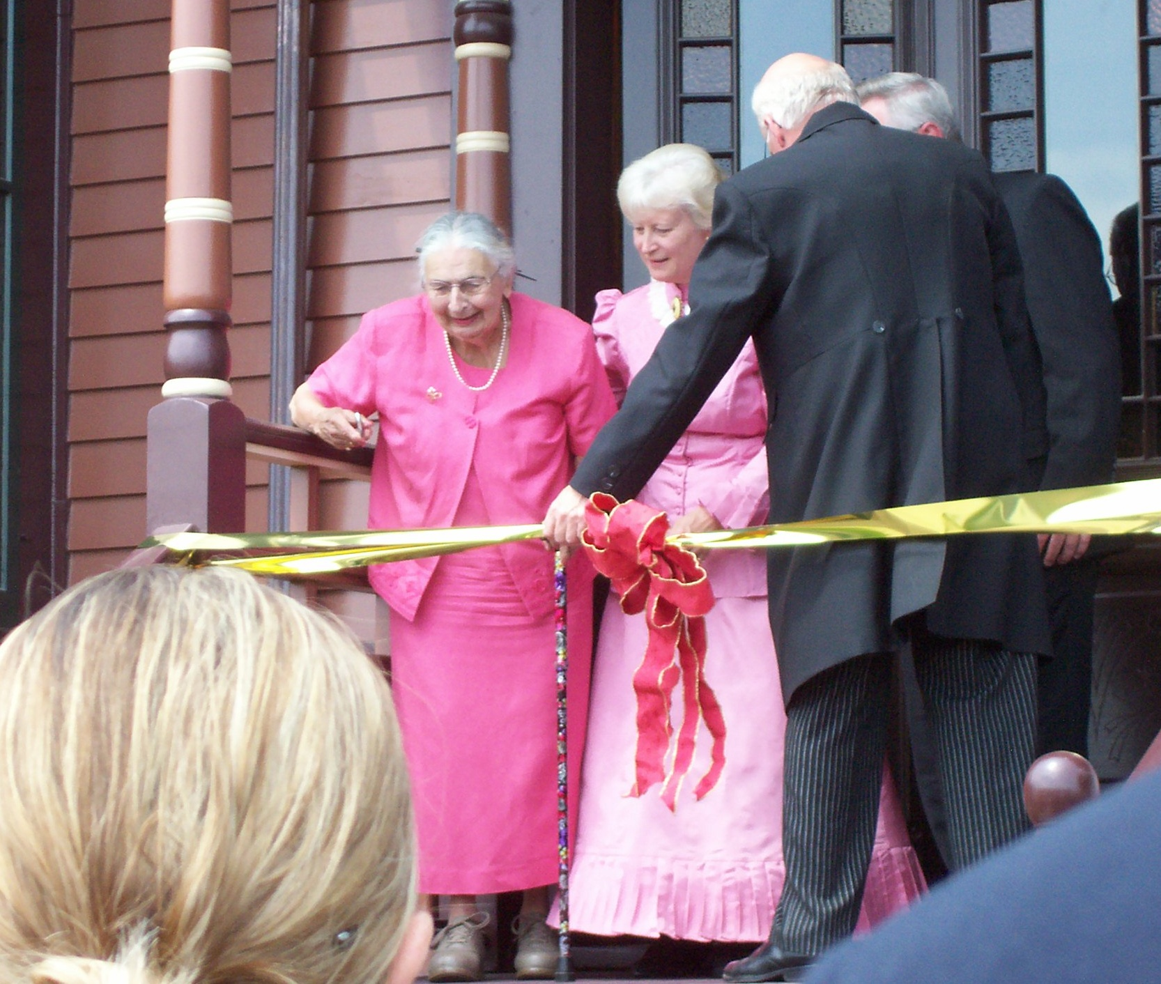 The ribbon cutting at the rededication for the Herman C. Timm House in New Holstein, Wisconsin, USA. The house is on the National Registry of Historic Places.